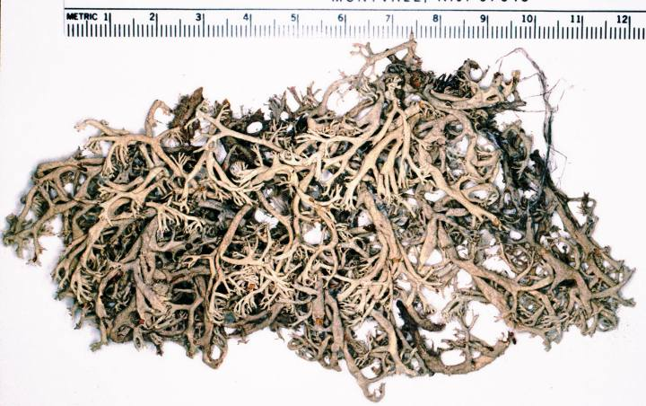 Cladonia amaurocraea (Flörke) Schaer., 1887 (photograph of a herbarium specimen) Growing in open sand of an old field disturbed by fire near Pellston Campground, N side of Robinson Road, Emmet County, Michigan, USA; collected and identified by Richard E. Riefner (No. 81-260, 26 Jun 1981); specimen is now in the Lichen Herbarium of the New York Botanical Garden. (millimeter scale)